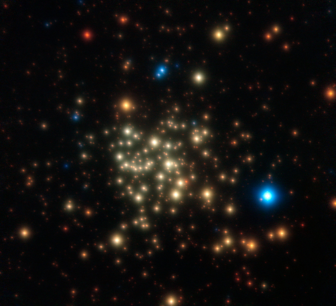 This image of the Arches Cluster of young, massive stars was obtained with NACO on ESO’s Very Large Telescope. The field of view is 28 arcseconds. North is up and east is to the left. This image is a composite of infrared images obtained through J, H and K filters. The stars appear as bright cores surrounded by faint diffuse halos. This is typical of images obtained by adaptive optics instruments. The halo corresponds to light that was not fully corrected for the blurring effects of the Earth’s atmosphere.